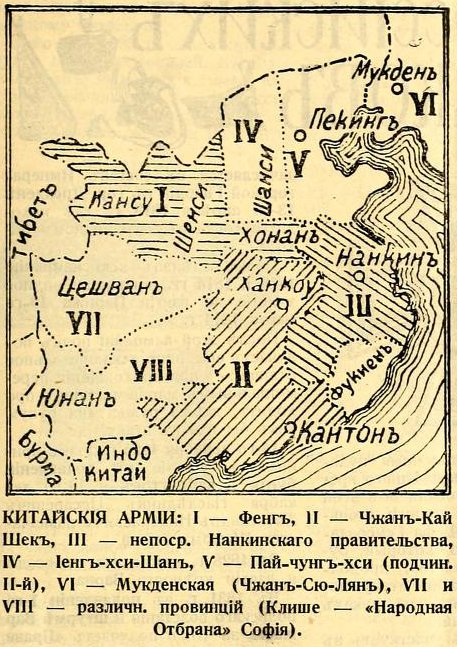 Chinese civil war warlords.